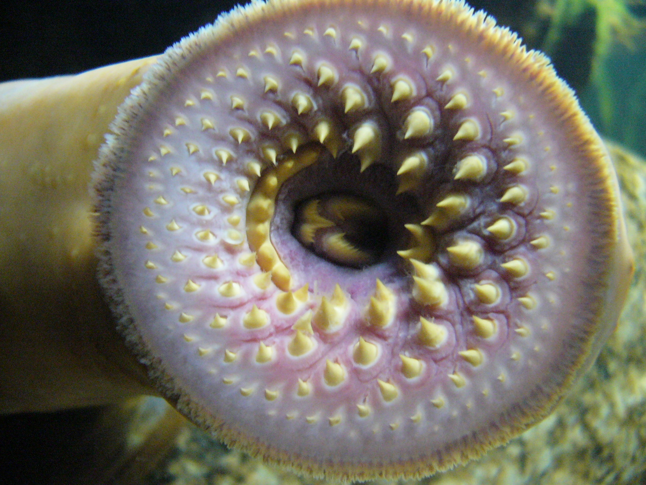 Petromyzon marinus (Lamprey) mouth in Sala Maremagnum of Aquarium Finisterrae (House of the Fishes), in Corunna, Galicia, Spain.